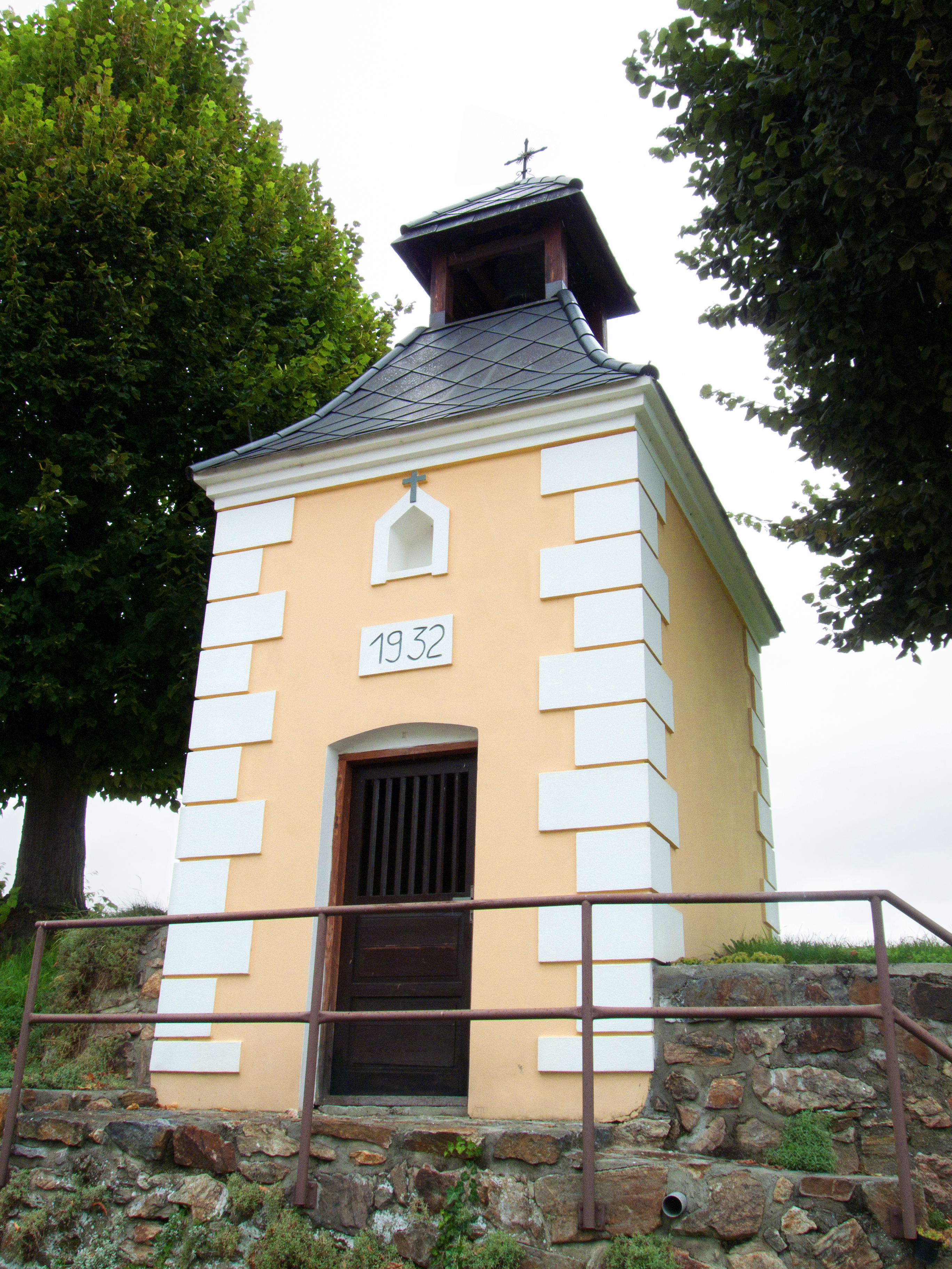 Saint Adalbert Chapel with a bell tower in the village of Vesce, part of Týn nad Vltavou, České Budějovice District, Czech Republic